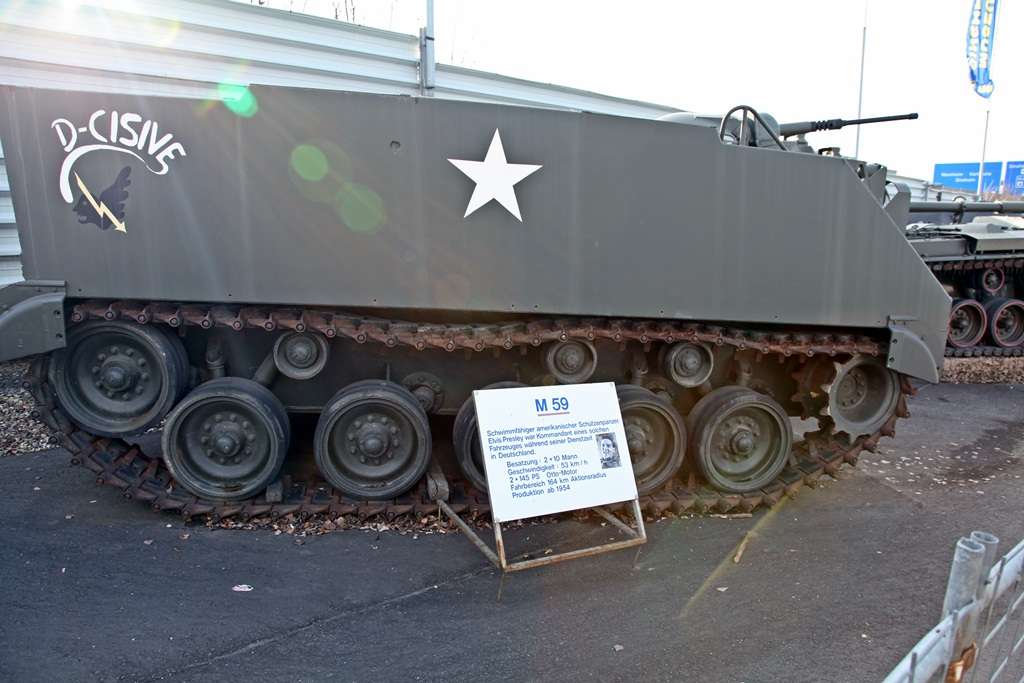 M59 APC D-Cisive as commandeered by Elvis Presley during his tenure in Germany